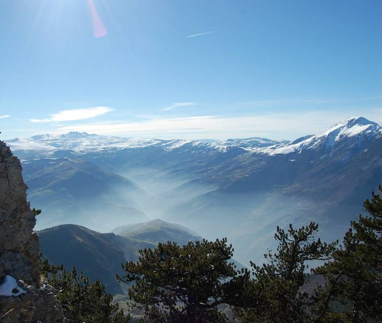 Pamje marre nga Koretniku